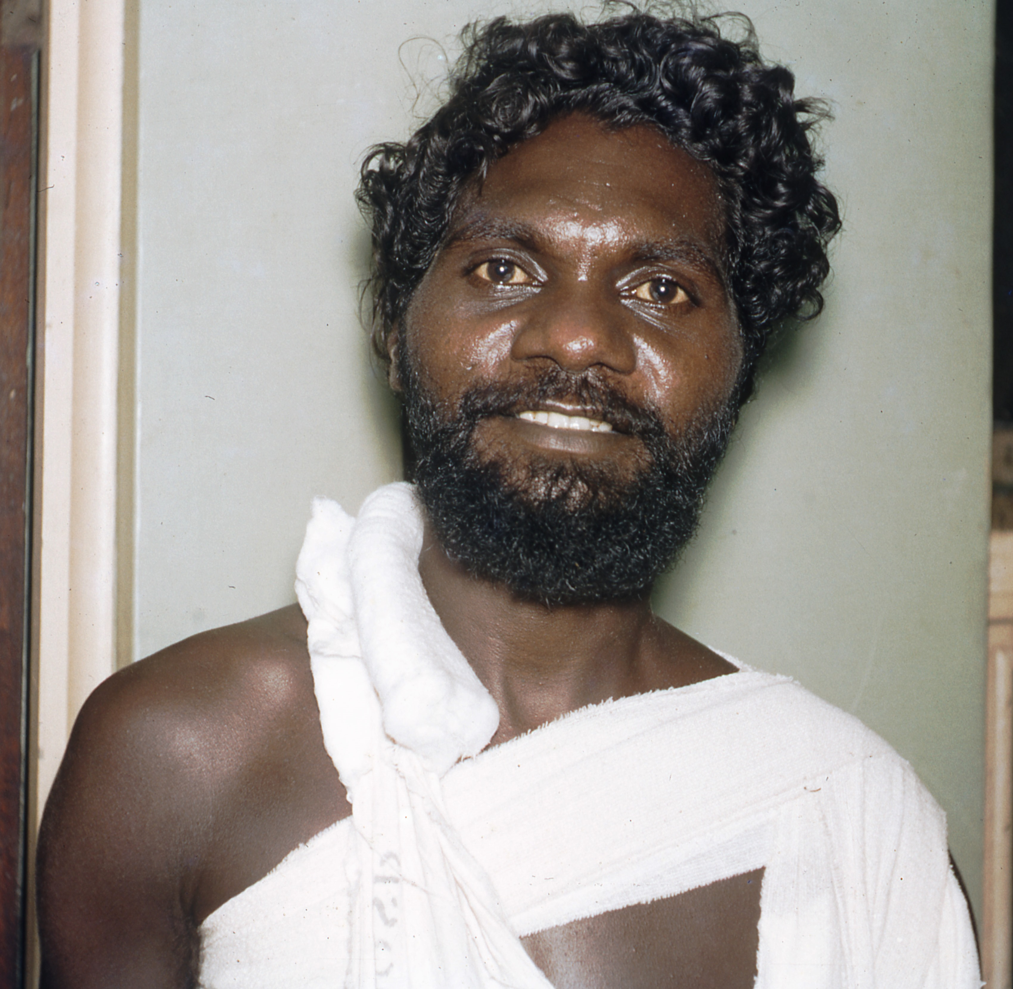 Head and shoulders photograph of actor Robert Tudawali, first Aboriginal Australian film star.